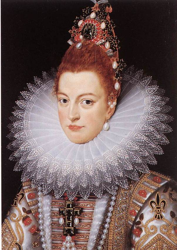 Isabella Clara Eugenia of Spain (12 August 1566 – 1 December 1633) was Infanta of Spain, Archduchess of Austria and the joint sovereign of the Seventeen Provinces. In some sources, she is referred to as "Clara Isabella Eugenia". She was a daughter of King Felipe II. of Spain and Elizabeth of Valois. Her husband was Archduke Albert (Albrecht) VII. of Austria, 16th century, Portraits de l'Archiduc d'Autriche Albert et de l'archiduchesse Isabella Clara Eugenia.